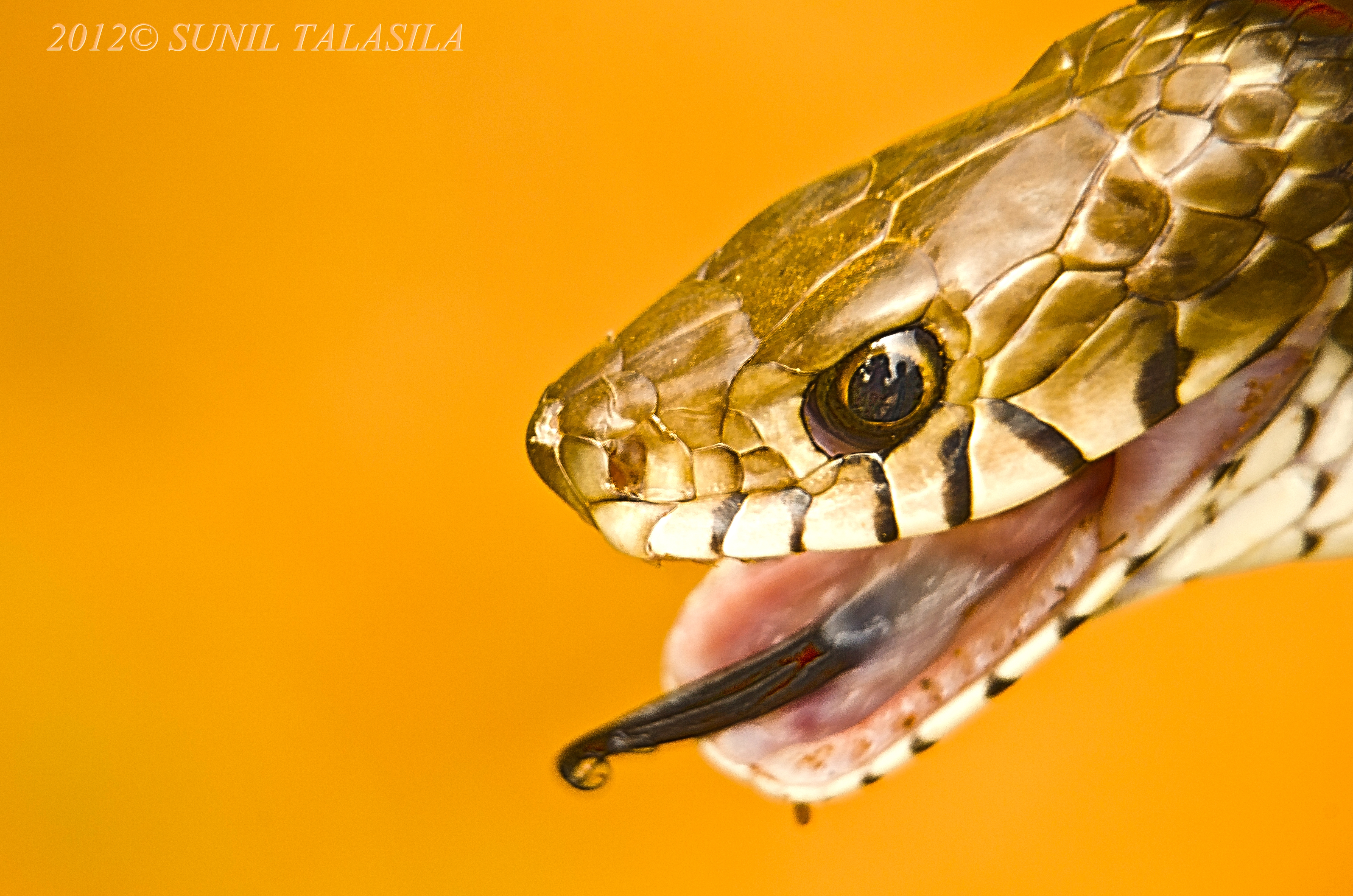 An oriental ratsnake (Pytas mucosa) at Duvvada, Viskhapatnam, Andhra Pradesh, India.